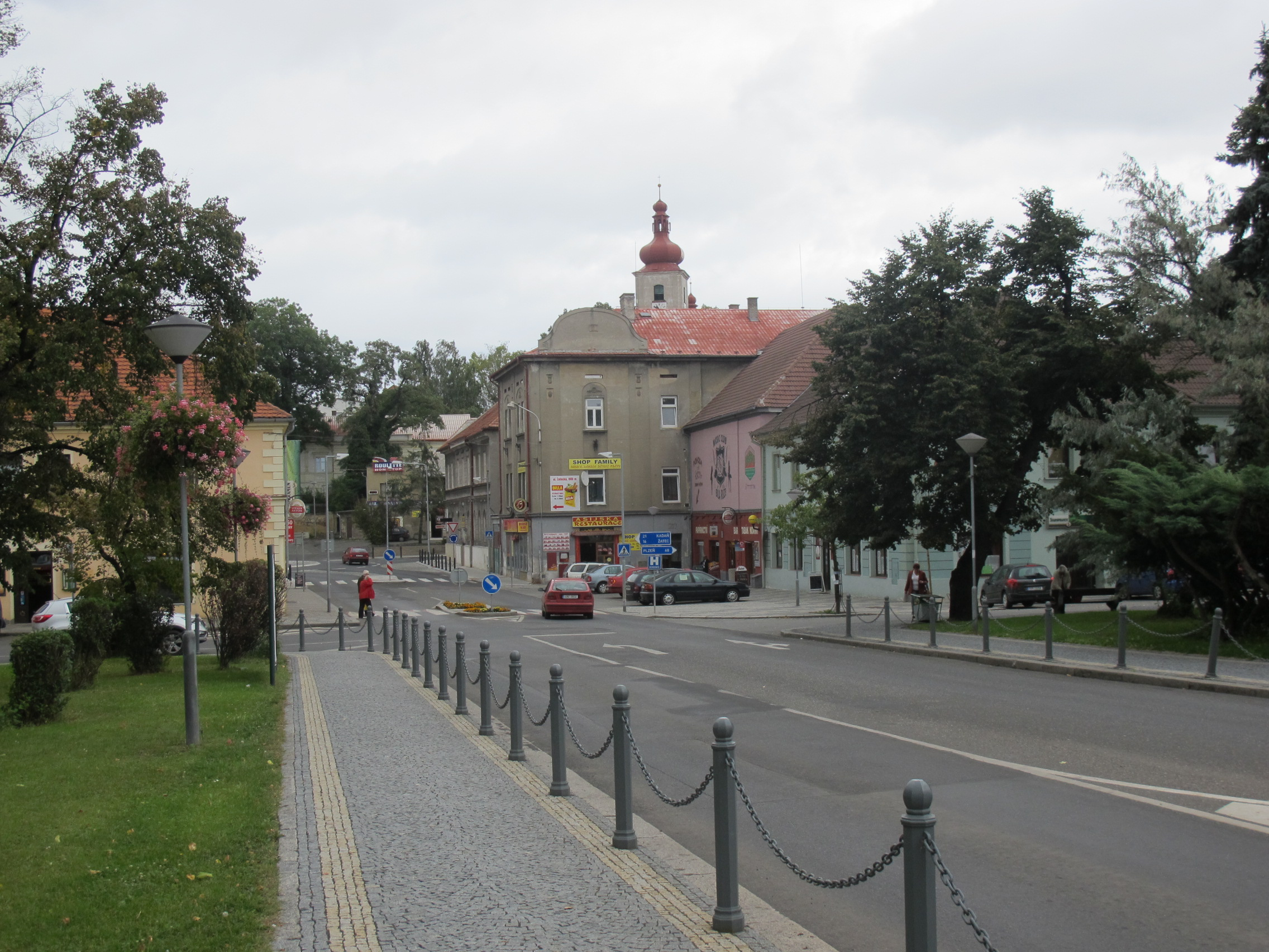 Masaryk square in Podbořany